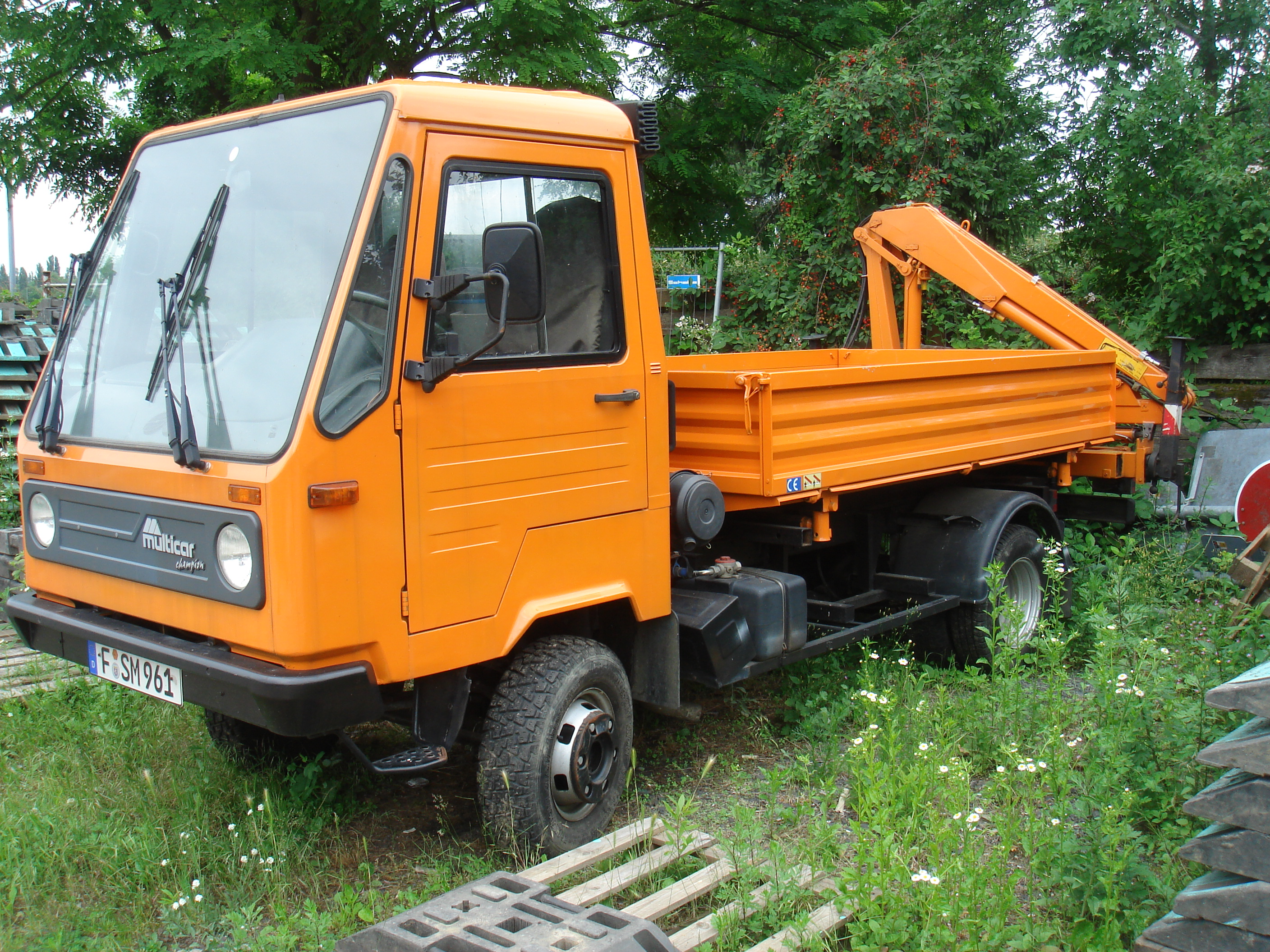 Multicar M26 Champion, kleiner LKW